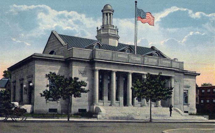 Beverly Main Post Office, Beverly, MA; from a 1919 postcard. Designed by James Knox Taylor, Supervising Architect of the U. S. Treasury, the building was added in 1986 to the National Register of Historic Places.